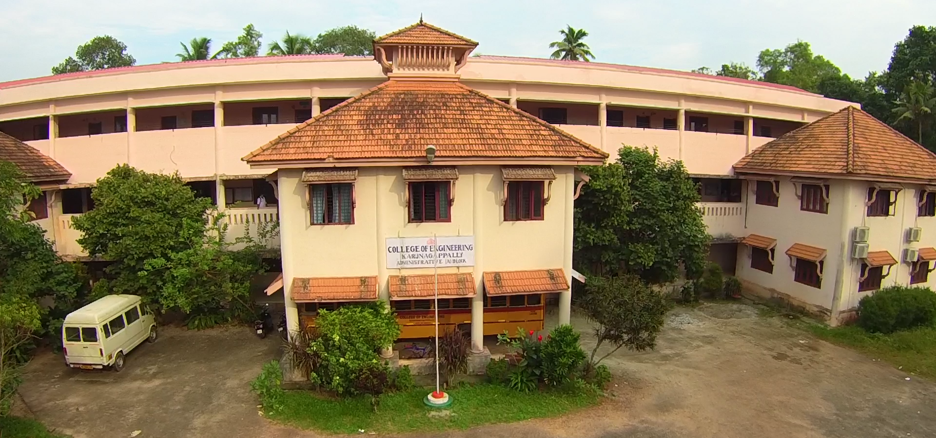 CEK Main Block